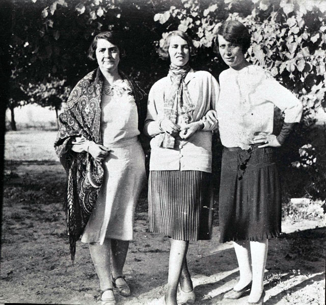 Afghan women in the 1920's and women's rights in Afghanistan.